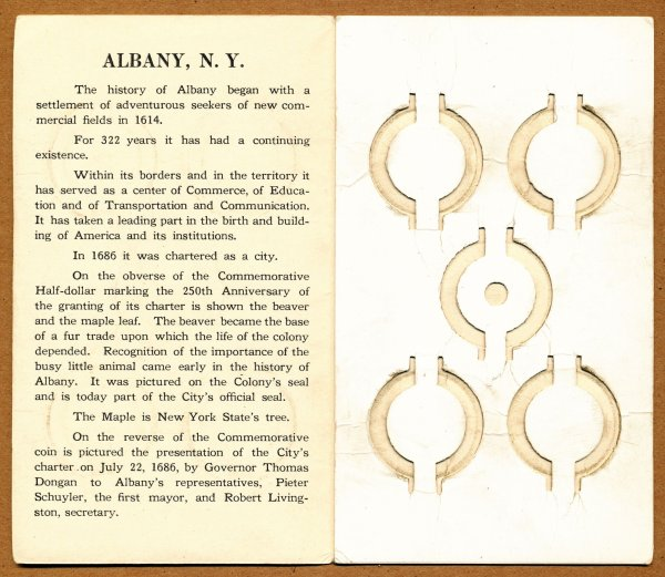 This is the inside of a coin holder given with purchasers of between 1 and 5 Albany half dollars in 1936. See Albany Charter half dollar